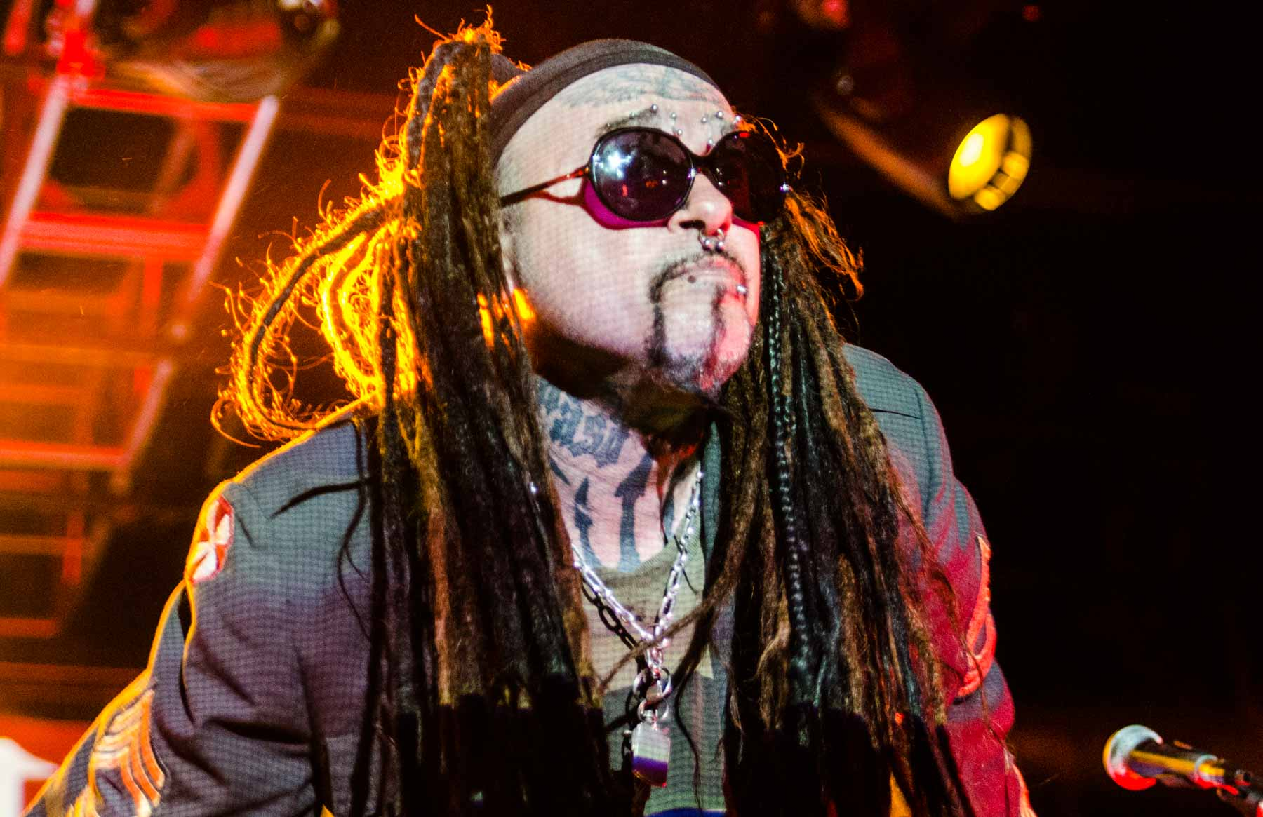 Al Jourgensen with Ministry